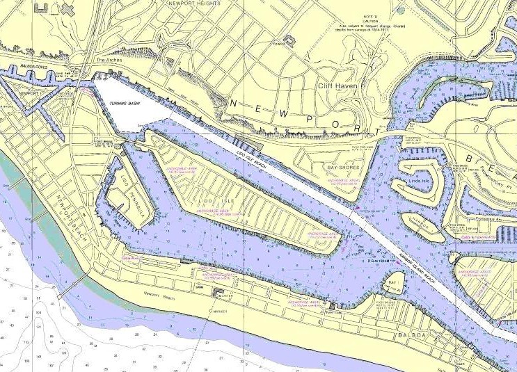 NOAA map # 18754 Newport Bay (section)